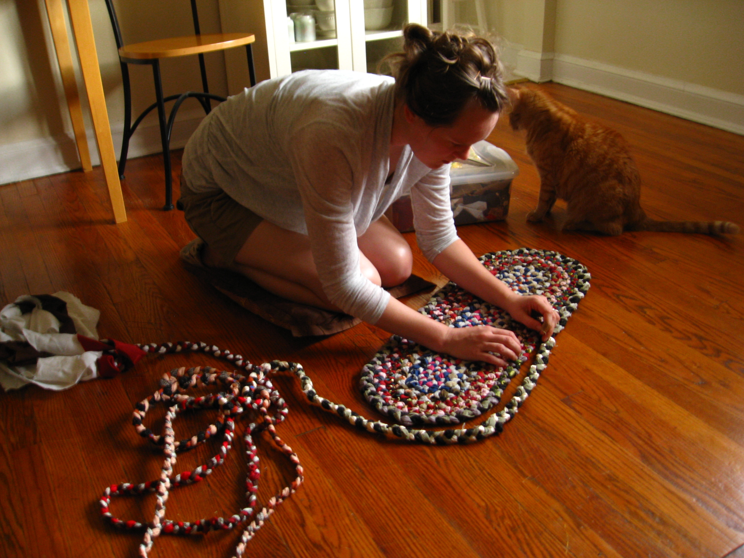 A picture of a woman sewing a New England-style braided rug from scraps of old fabric. Picture was taken with a Canon PowerShot SD850 IS digital ELPH camera.